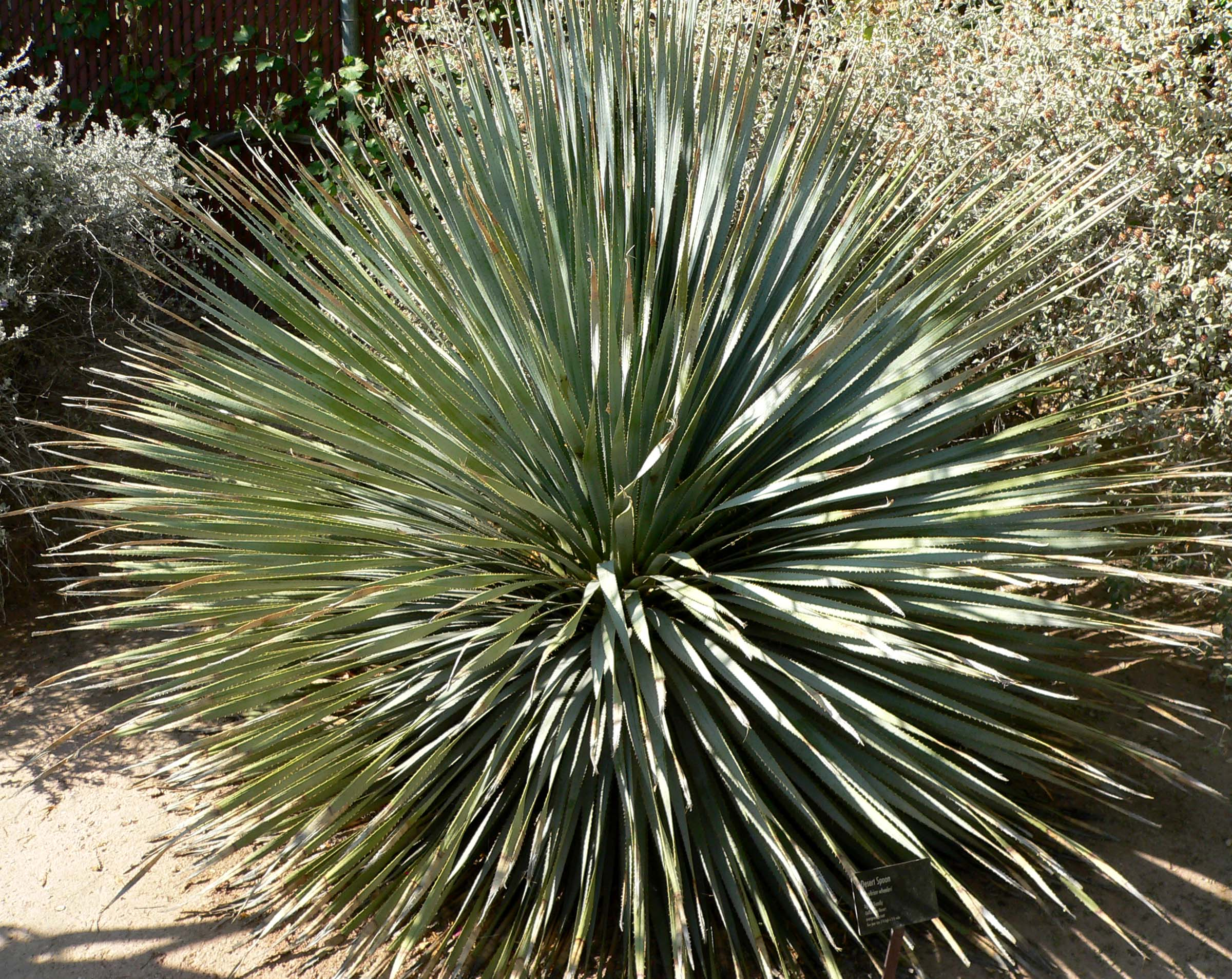 Photo of Dasylirion wheeleri at the Springs Preserve garden in Las Vegas